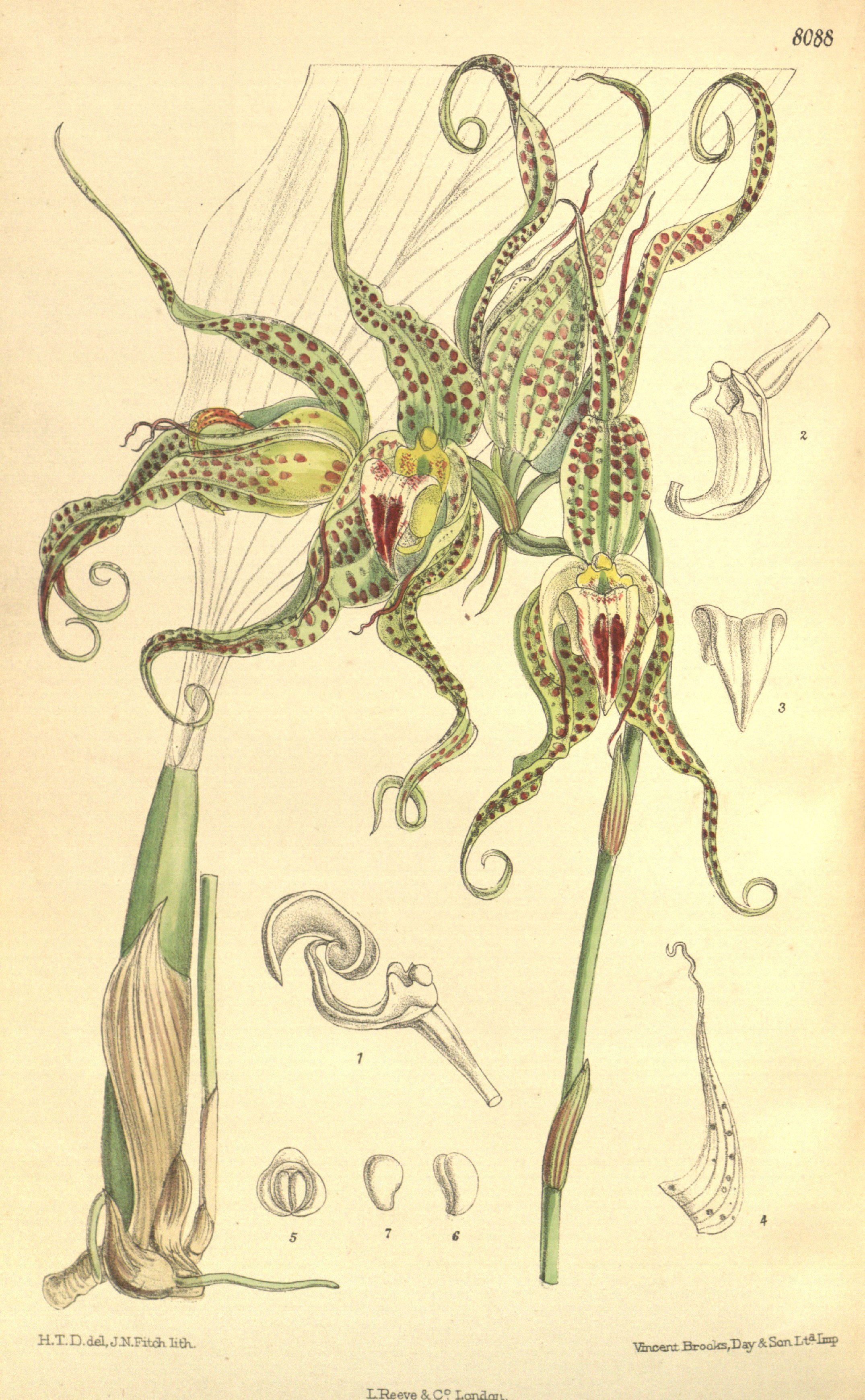 Illustration of Bulbophyllum binnendijkii (as syn. Bulbophyllum ericssonii, spelled by Rolfe as Bulbophyllum ericssoni)